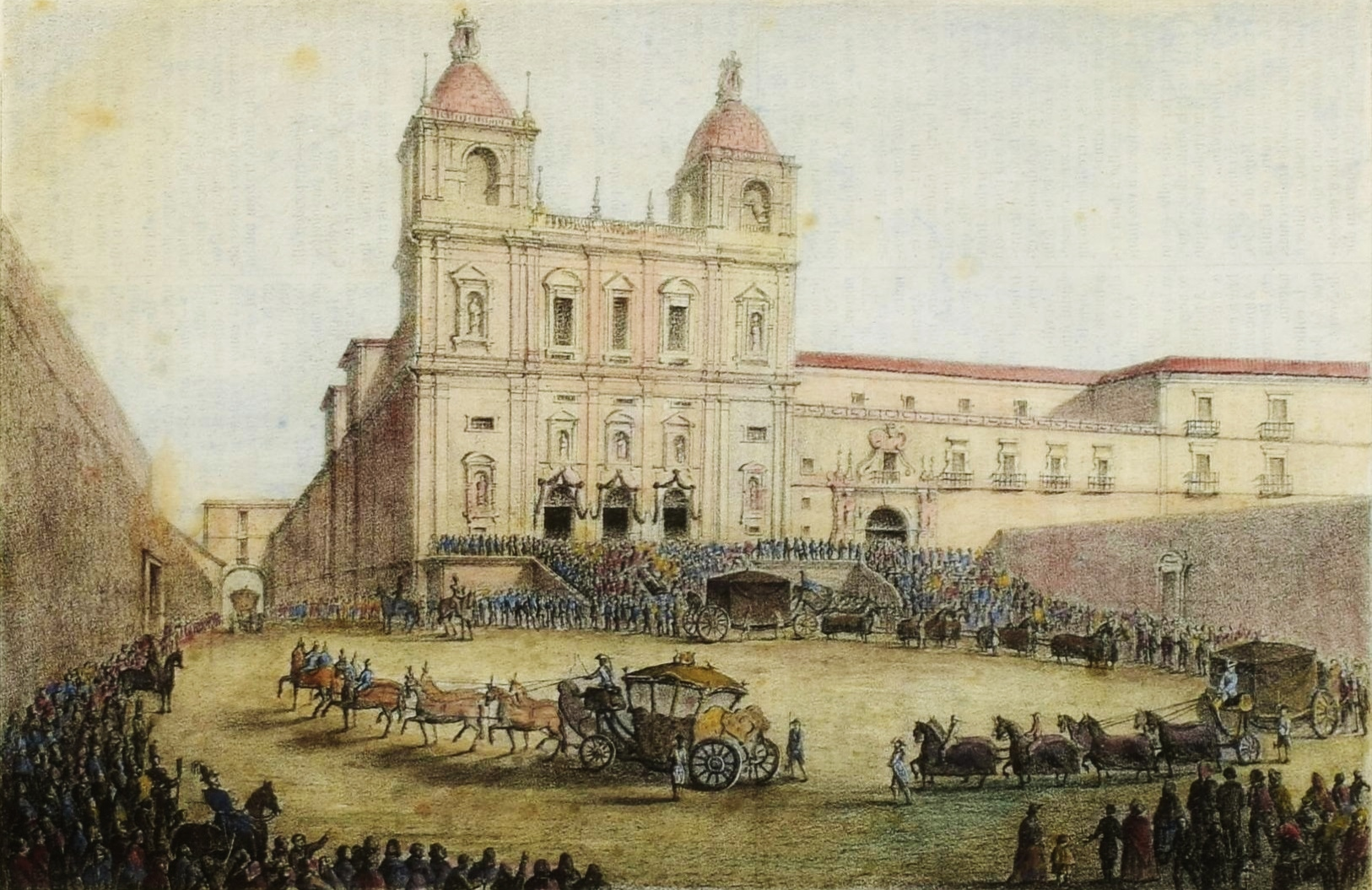 Funeral of Queen Maria II of Portugal, 1854.